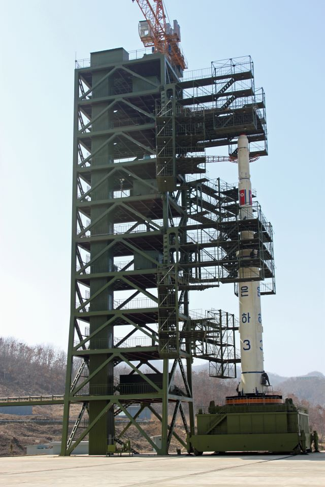 North Korea's Unha-3 rocket ready to launch at Tangachai-ri space center on April 8, 2012.